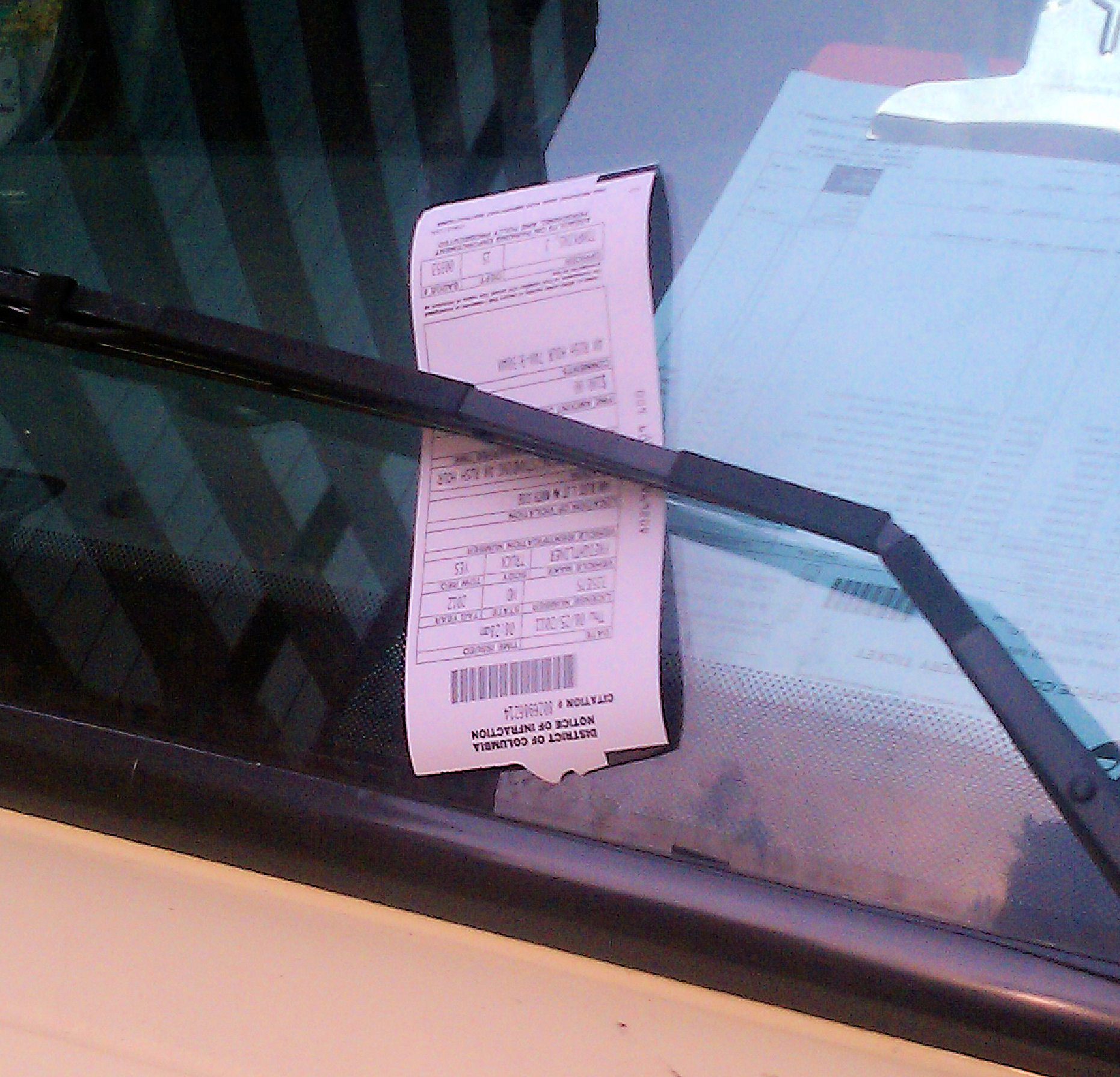 Parking ticket on the window of a commercial vehicle illegally parked in Washington, D.C., in the United States.